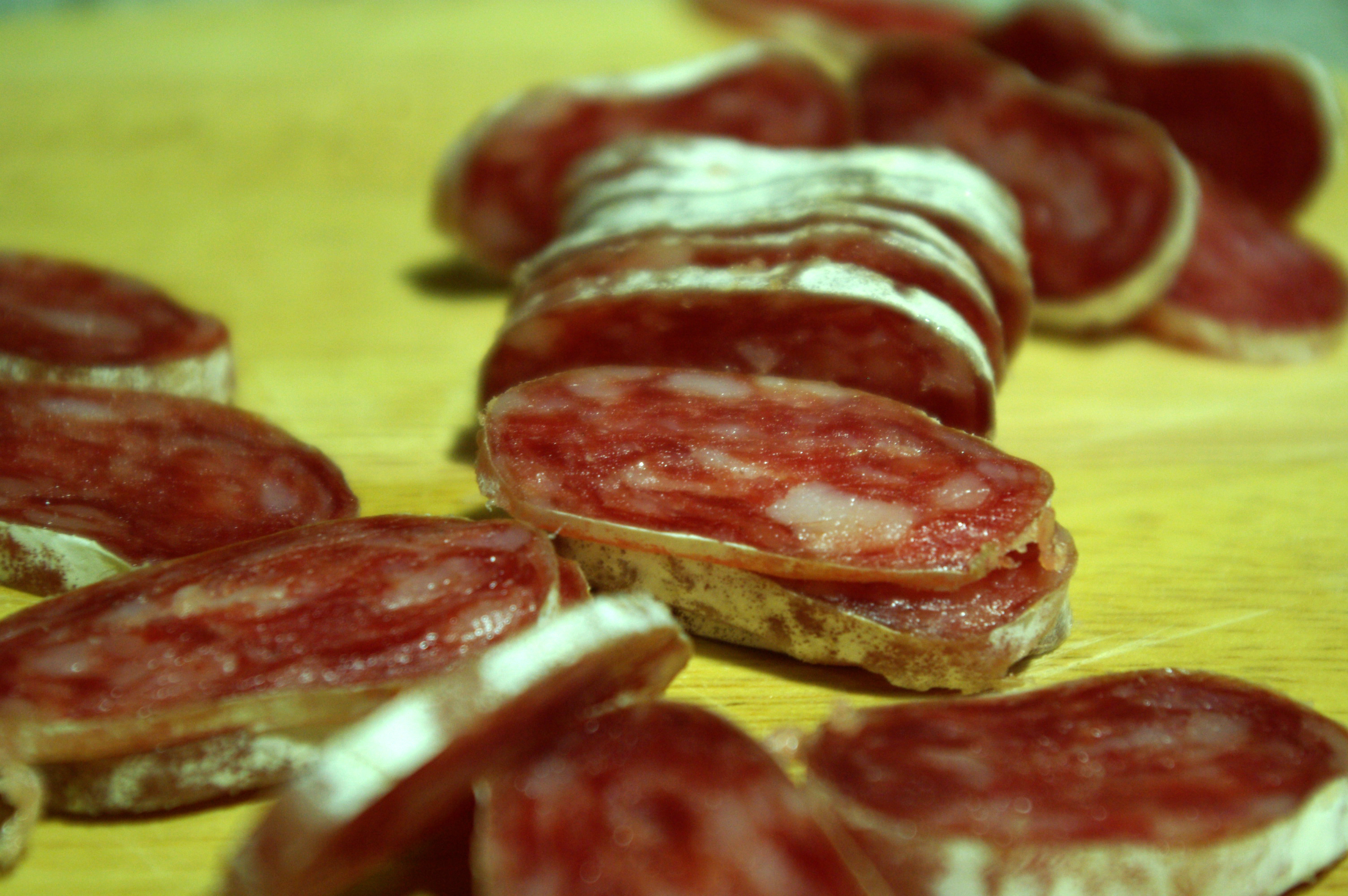 A fuet